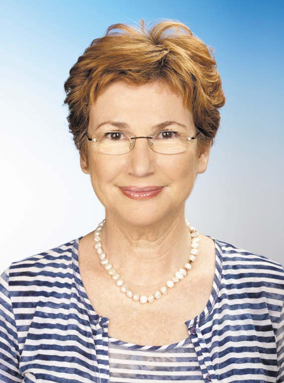 Portrait photo of Yael German, mayor of Herzliya